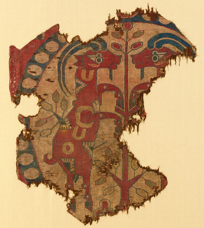 Andy Lloyd will exhibit this Sogdian silk brocade textile fragment ca 700 ad